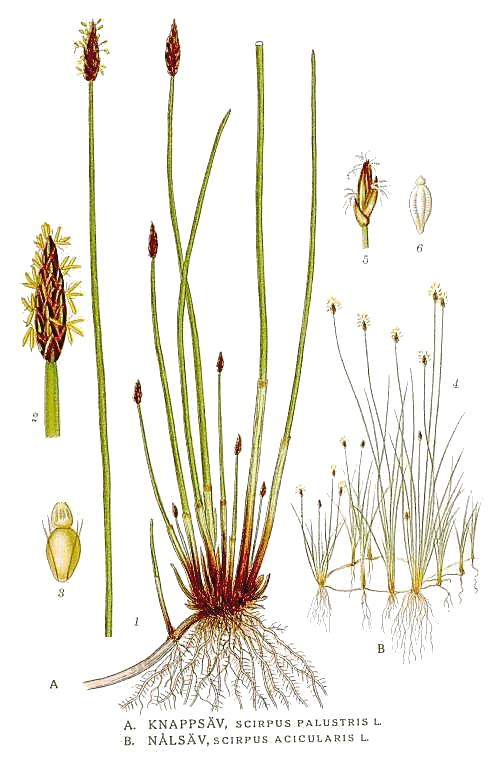 A. Eleocharis palustris (L.) Roem. & Schult., syn. Scirpus palustris L. B. Eleocharis acicularis (L.) Roem. & Schult., syn. Scirpus acicularis L. Original Description A. Knappsäv, Scirpus palustris L. B. Nålsäv, Scirpus acicularis L.